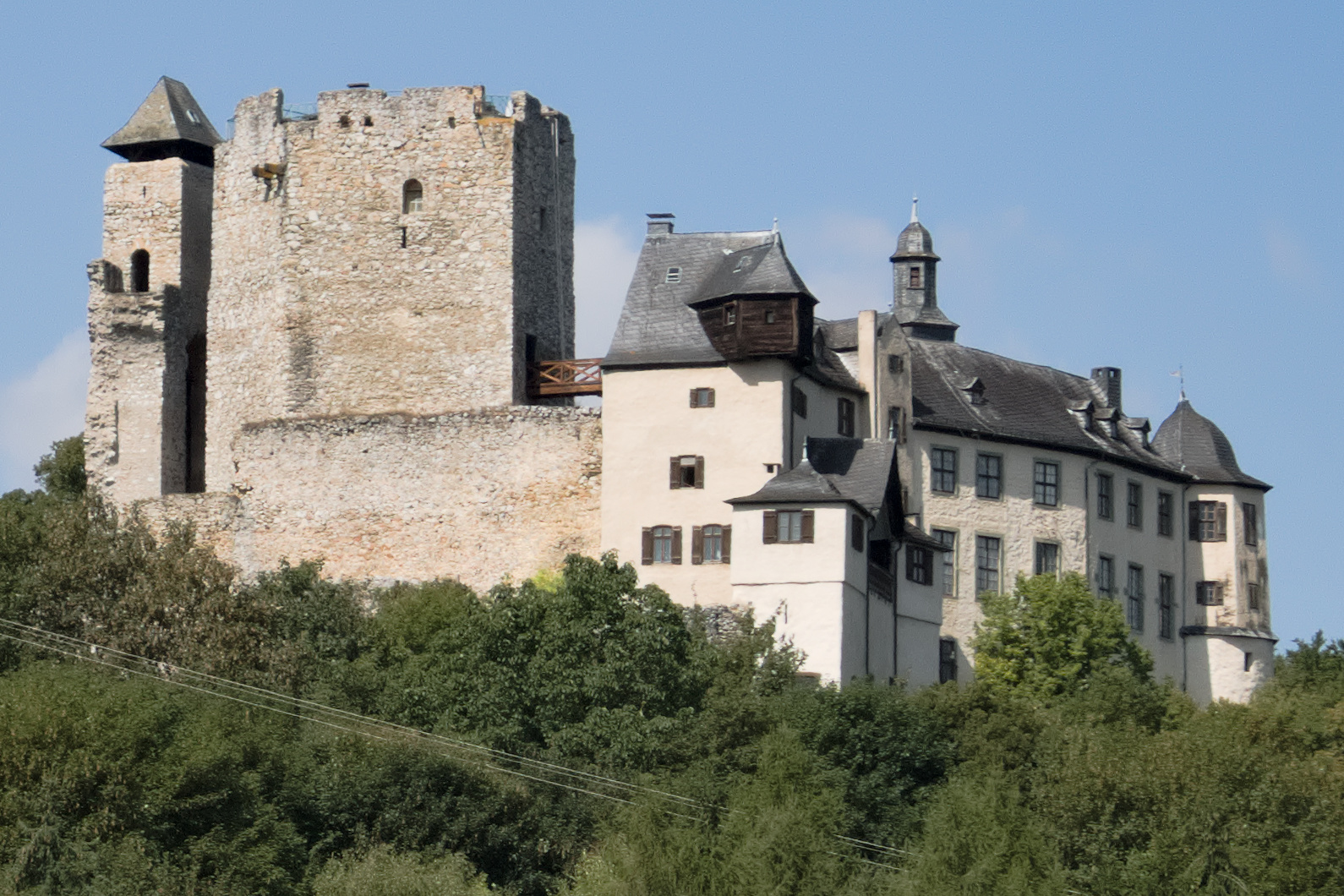 The Hohlenfels castle near Mudershausen, Taunus, Germany. View from south-eastern direction.